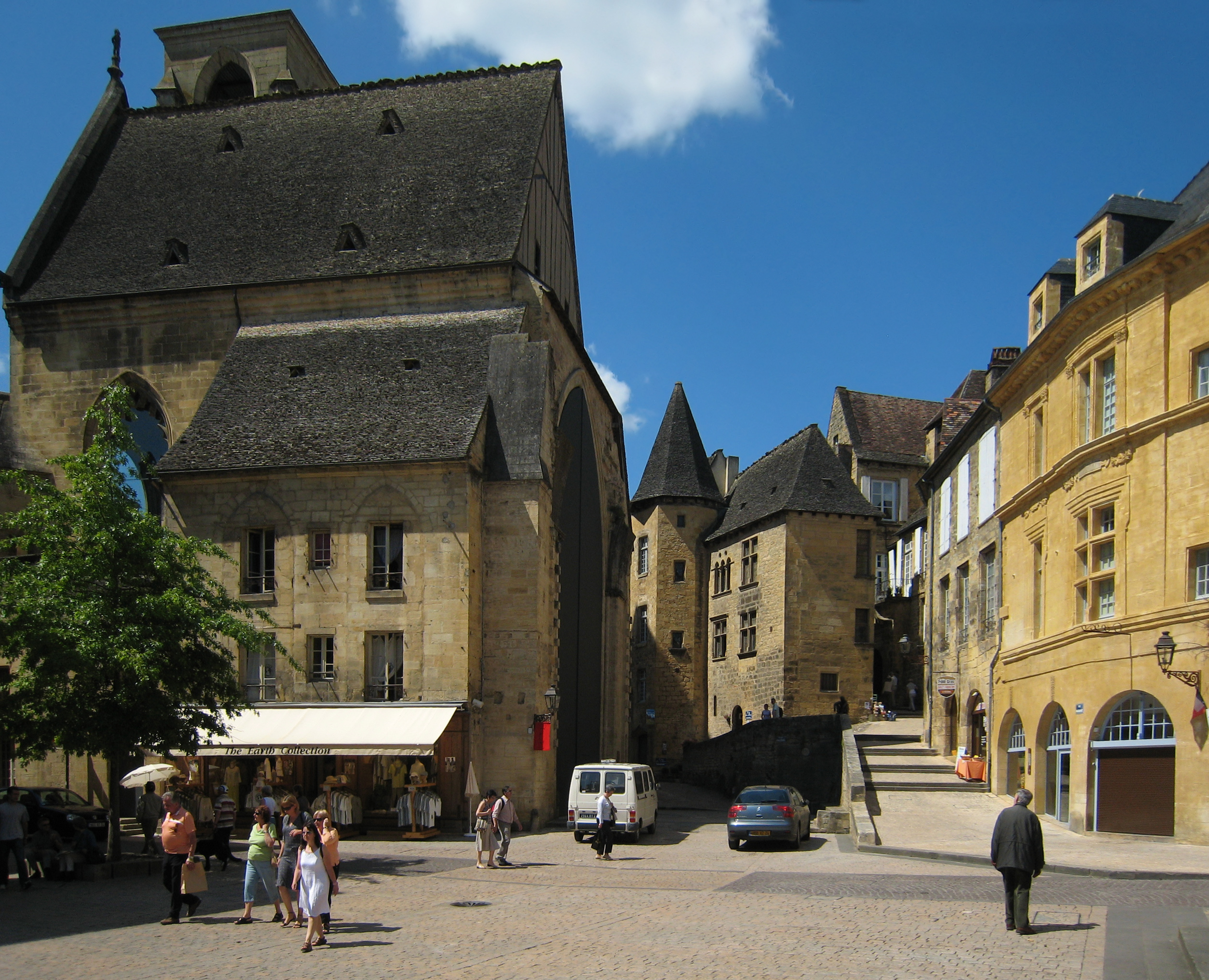 Village of Sarlat in the Département of Dordogne/France - old town, north end of the market square